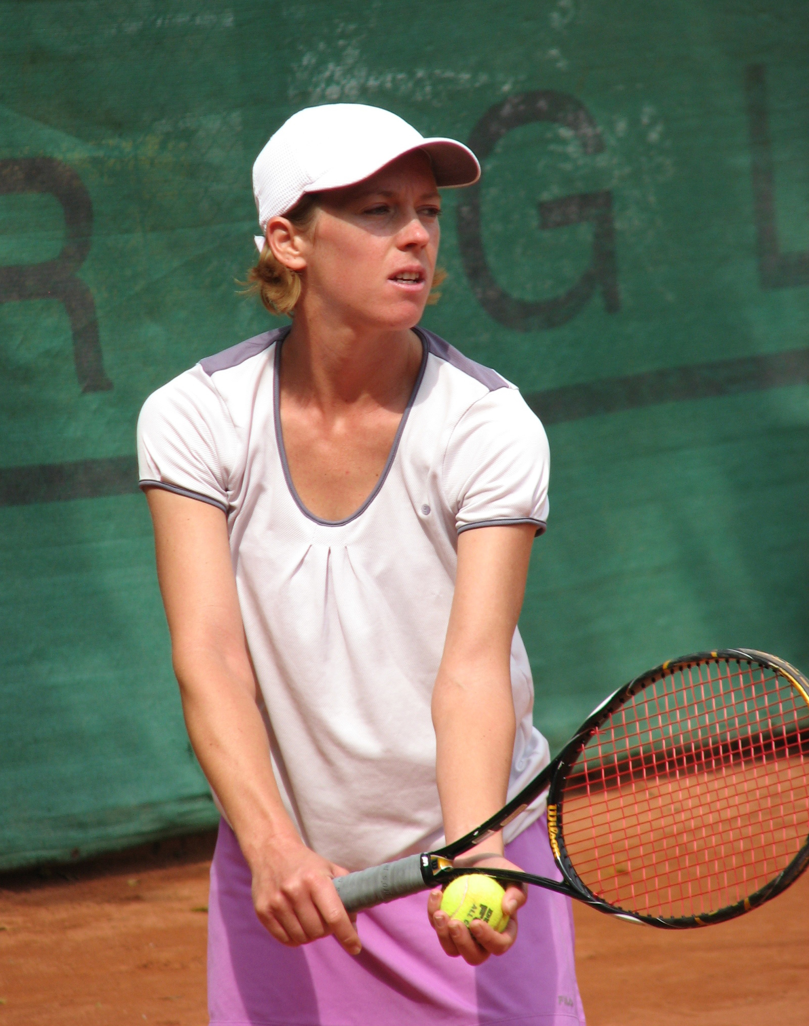 Biljana Pavlova (Allianz Cup 2009)